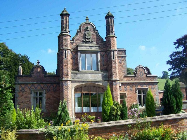 Former Gate House For Dilhorne Hall Dilhorne Hall was demolished in the 1930's but the Gate House still stands. The arms and crest of Buller are displayed on the topmost parapet.